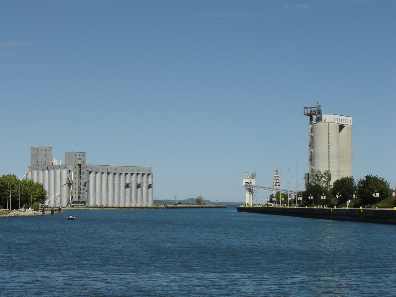 Owen Sound Harbor, photo by Jay Smith